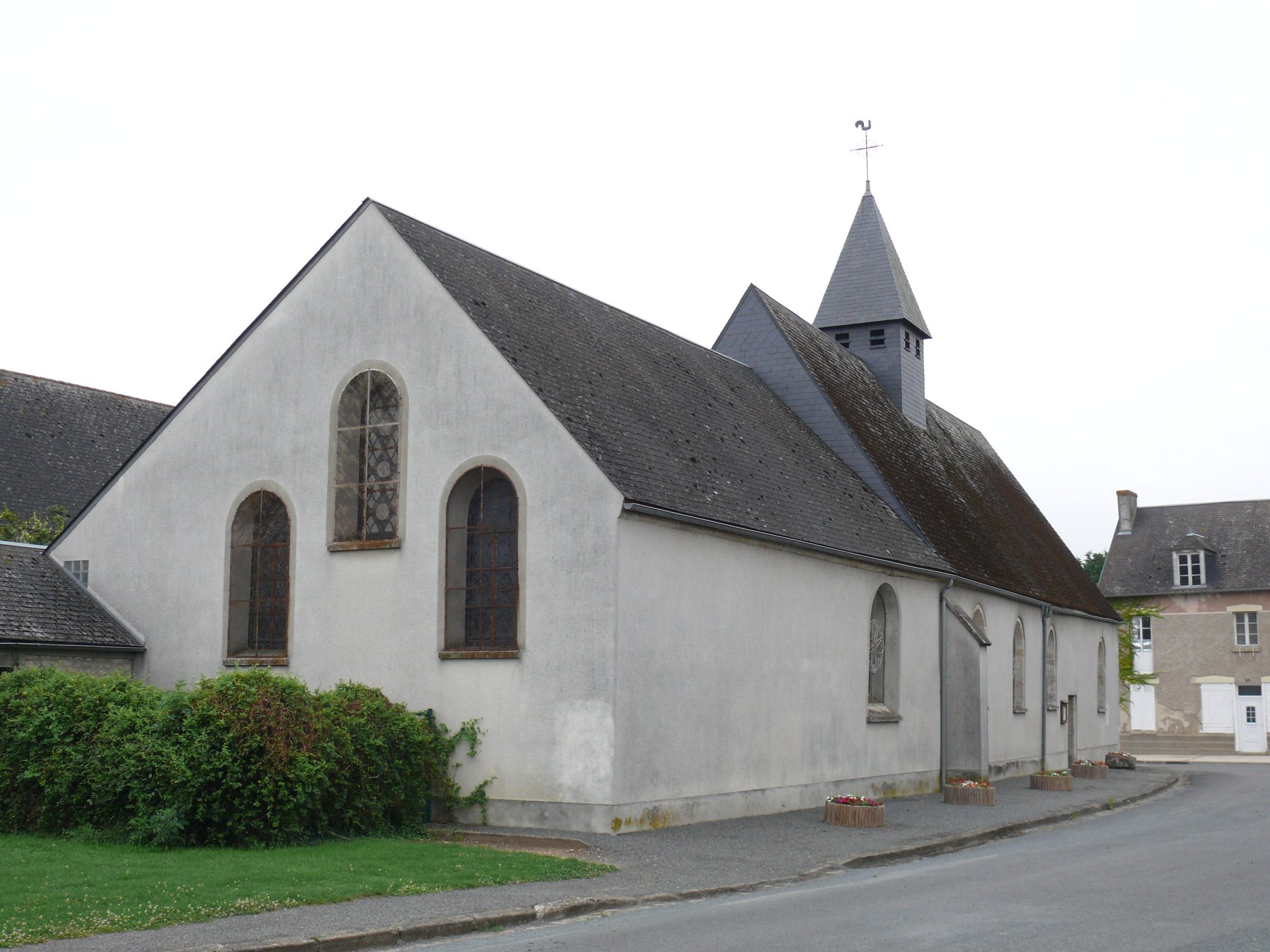 Saint-Charles' church of Ascoux (Loiret, Centre-Val de Loire, France).